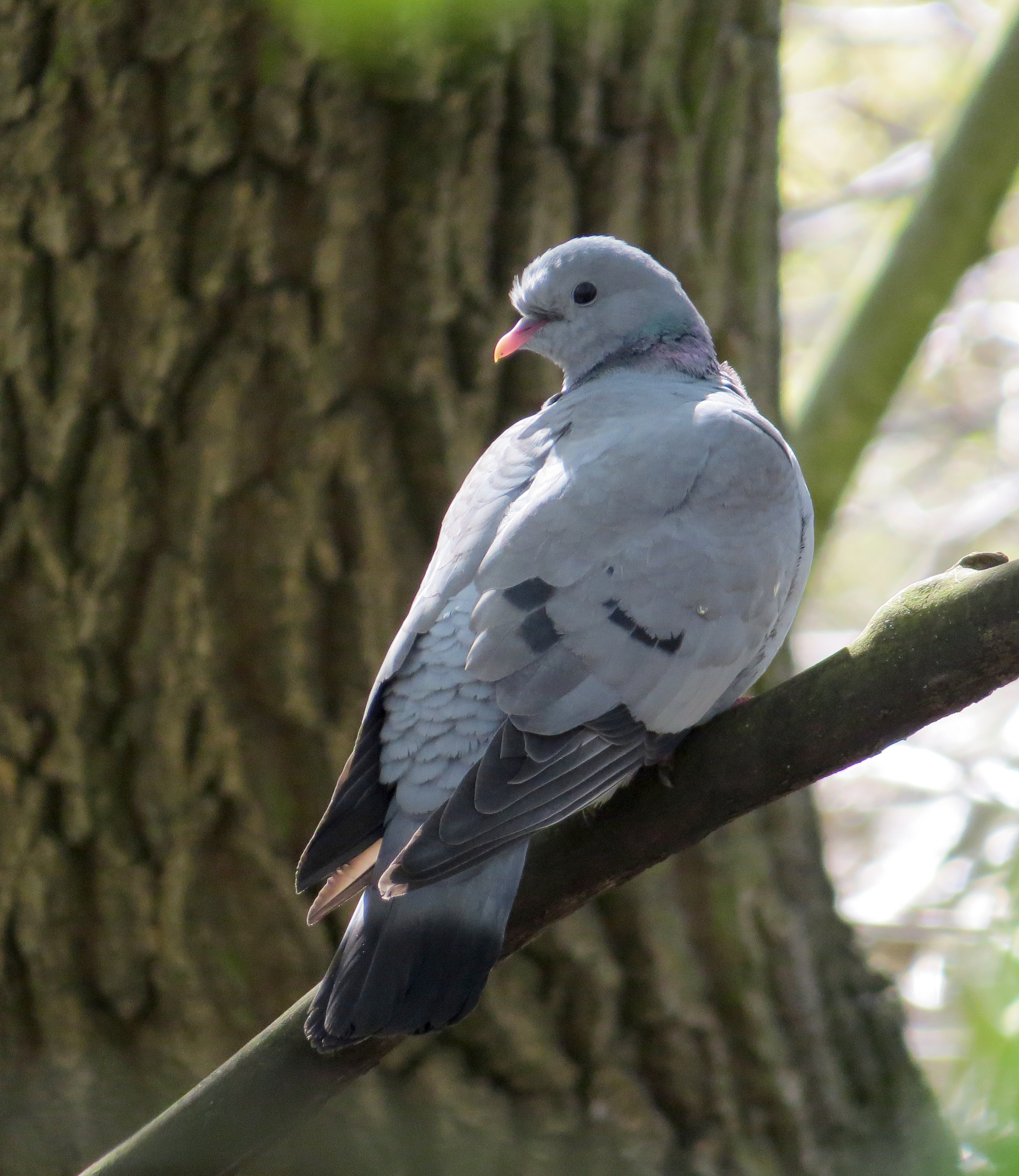 Stock Dove Columba oenas, Armstrong Park, Newcastle, Northumberland, UK